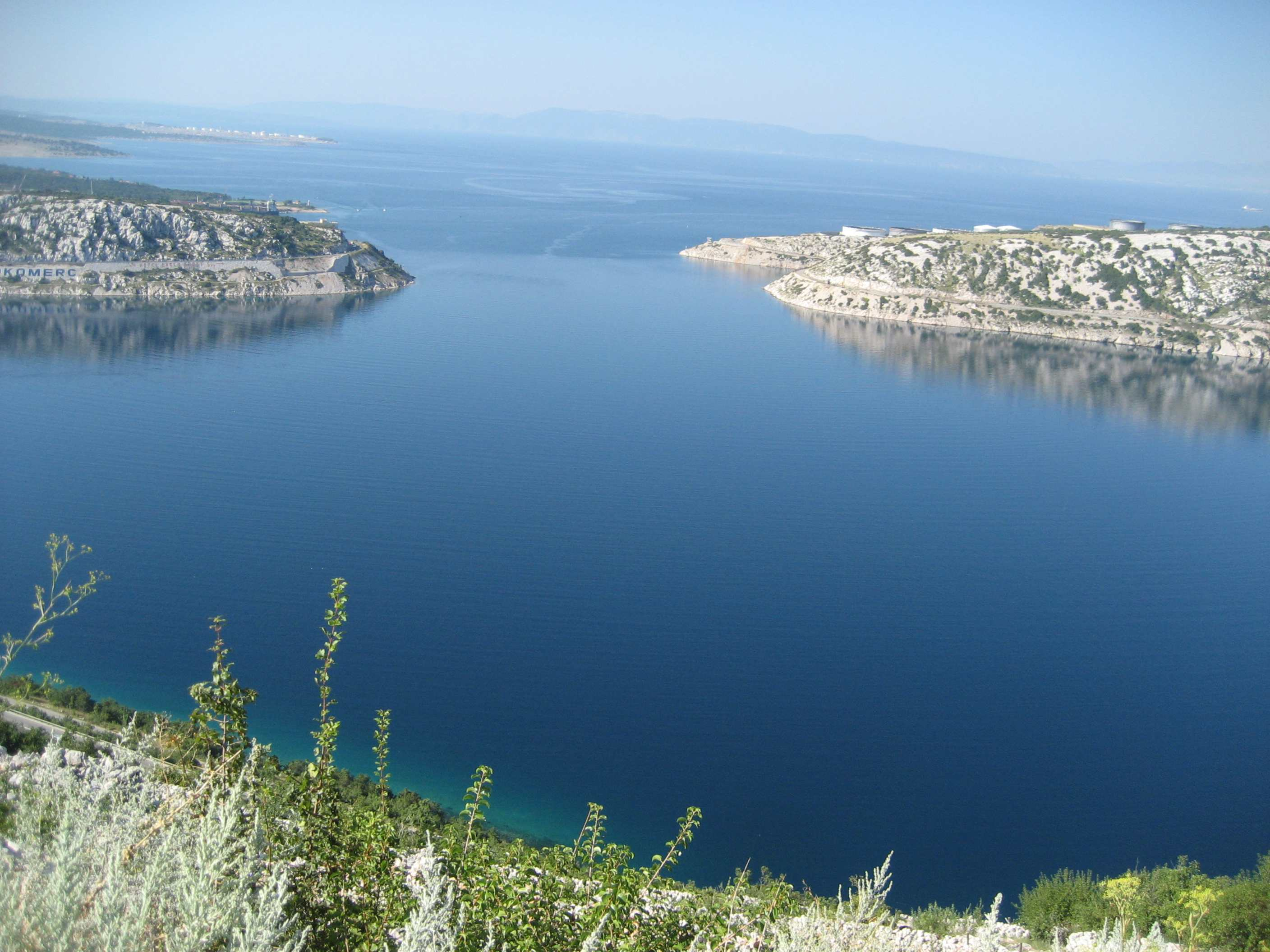 Bakarski_zaljev,_Croatia